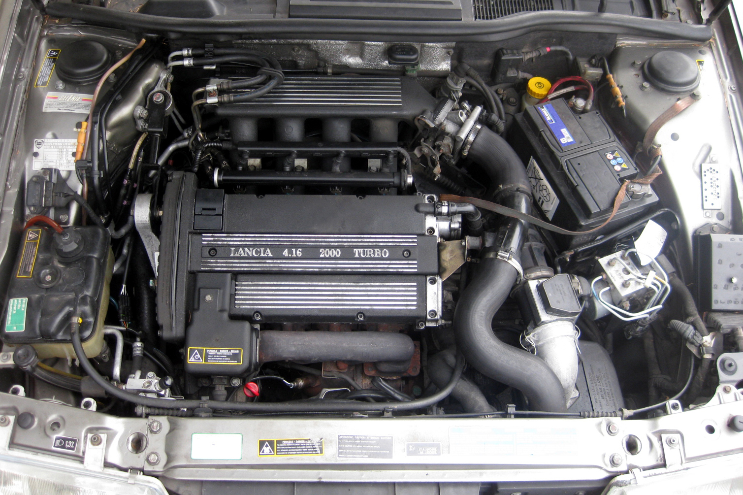 The Lampredi engine 2,ot 16V in a Lancia Kappa Coupé